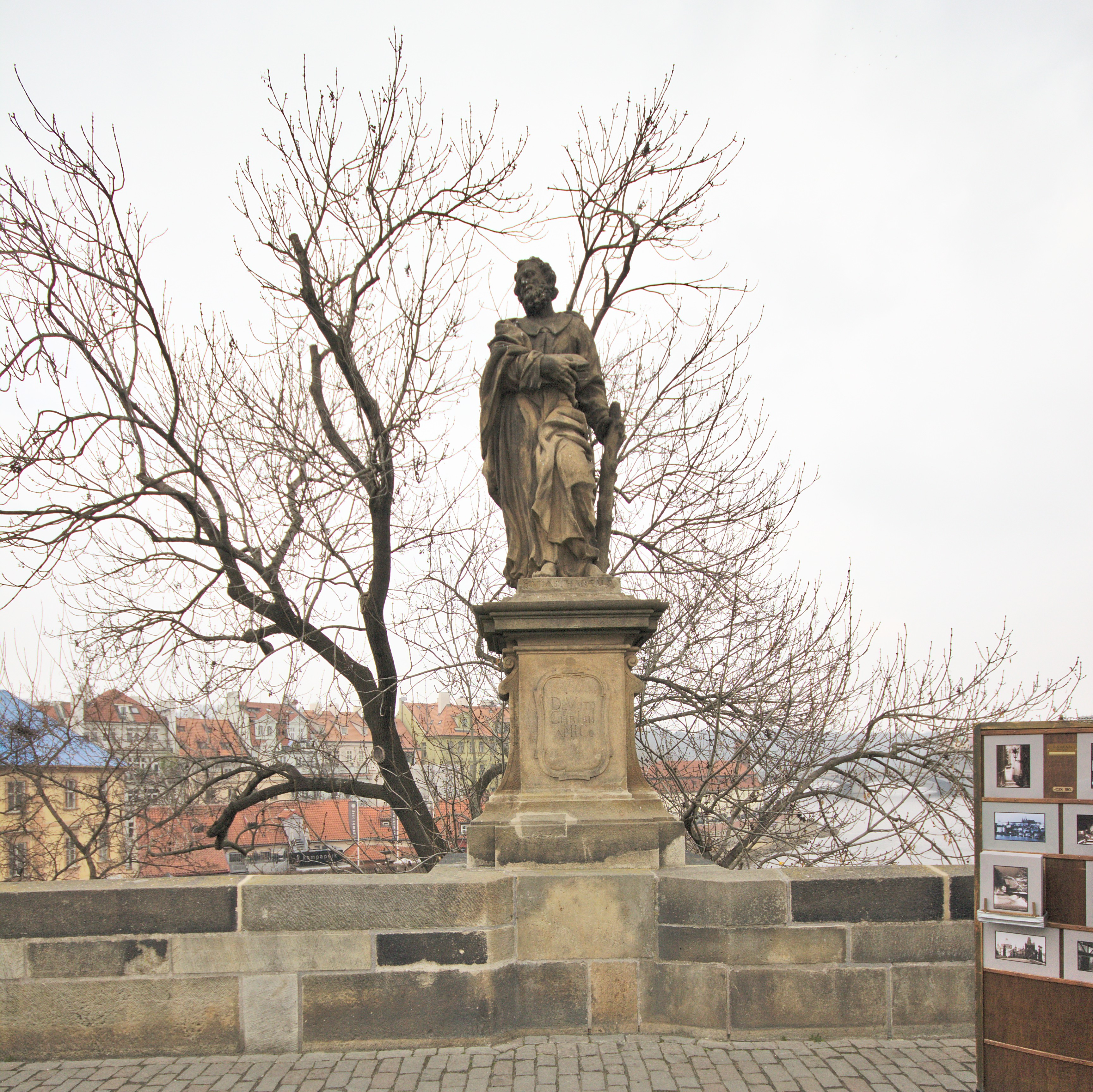 Statue of Saint Jude Thaddeus on Charles Bridge